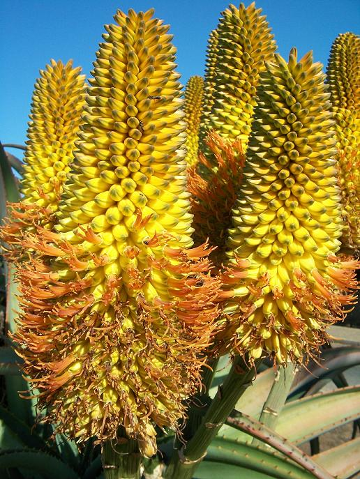 Flowers of Aloe thraskii from Amanzimtoti, South Africa